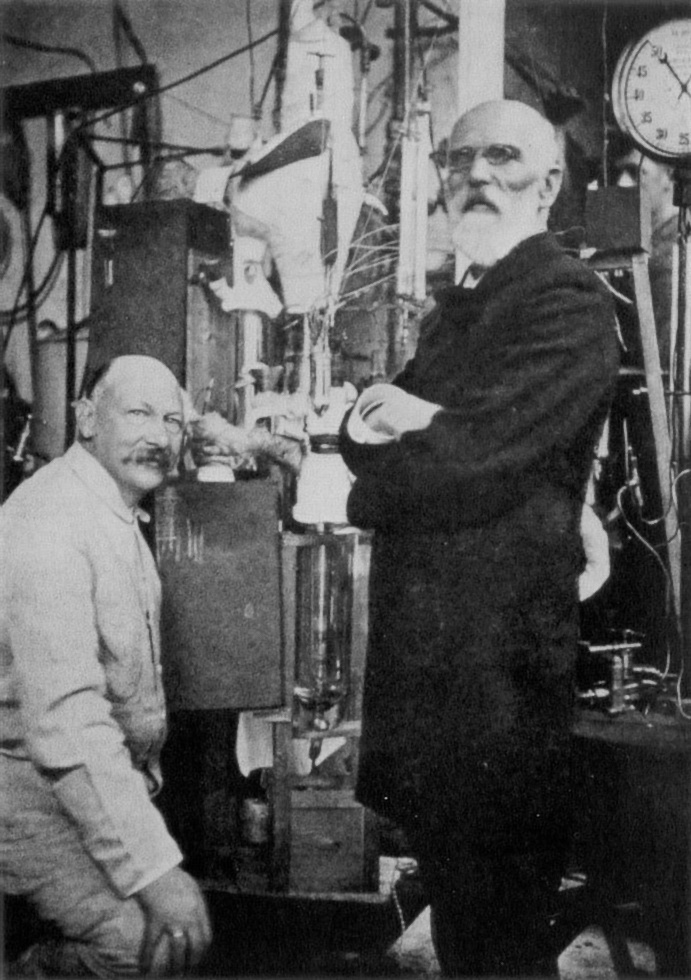 Johannes Diderik van der Waals (right) and Heike Kamerlingh Onnes in Leiden in front of the helium-‘liquefactor’